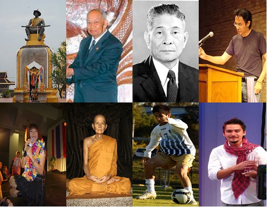 Composed of the following sources of Lao/Isan peoples